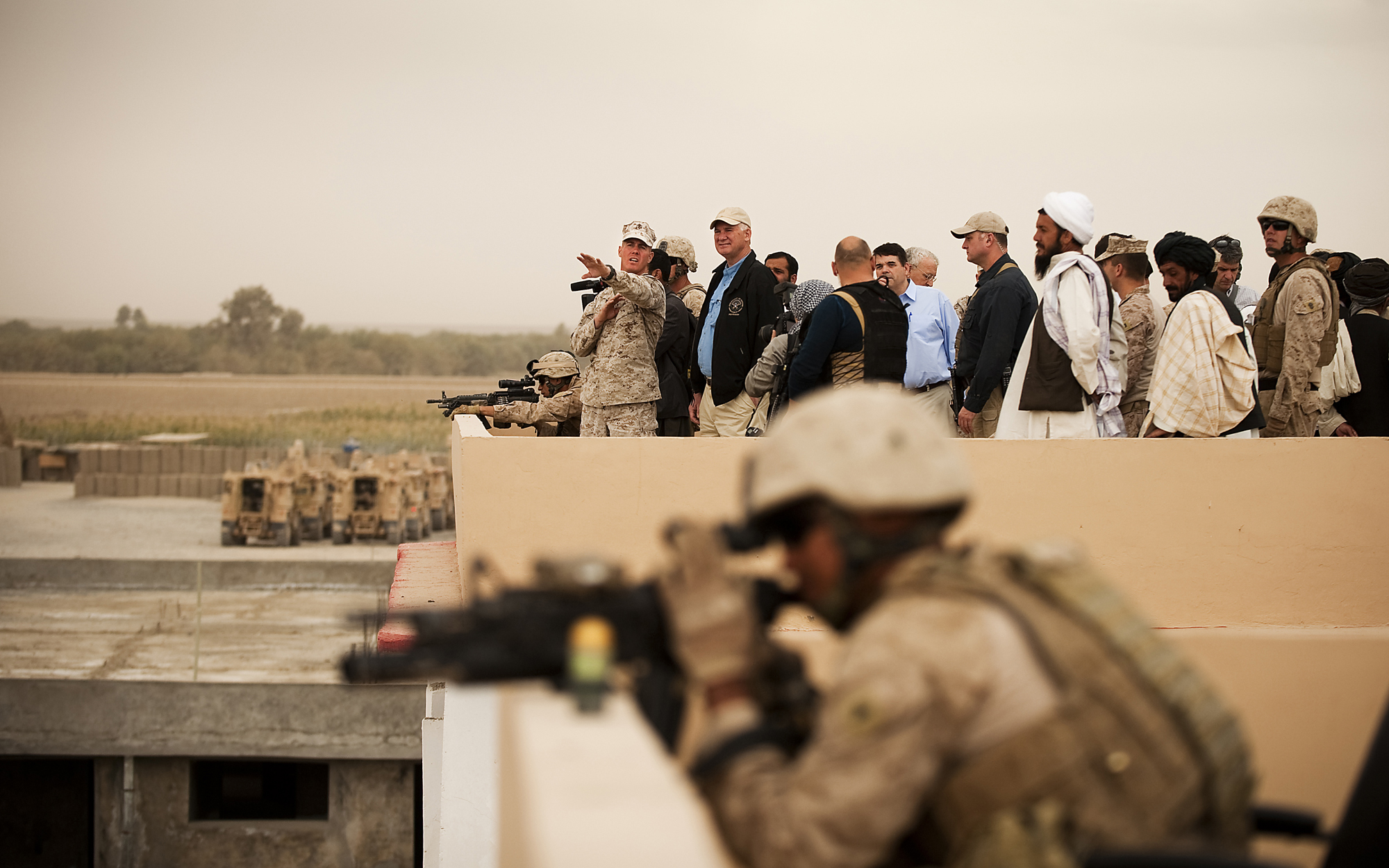 Lt. Col. Jeffrey C. Holt, the commanding officer of 3rd Battalion, 3rd Marine Regiment, points out sites to William J. Lynn, III, the deputy secretary of defense, from the roof of the Nawa District Governor’s Center during a visit to Nawa, Afghanistan, Oct. 28, 2010. Lynn visited Forward Operating Base Jaker and toured the surrounding area in Nawa to note progress by the Nawa Government and coalition forces.